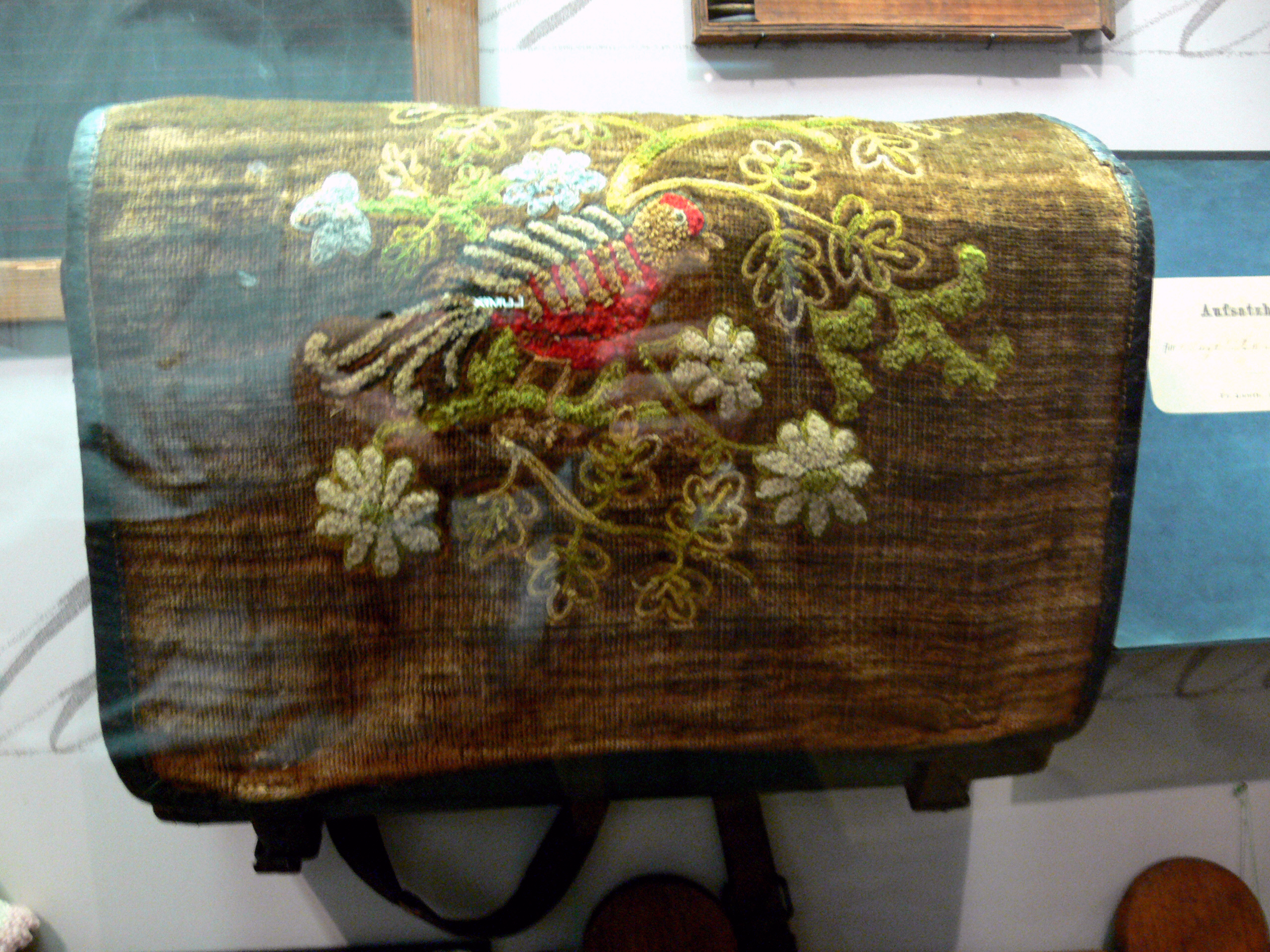 Satchel. Museum für Thüringer Volkskunde, Erfurt, Germany.